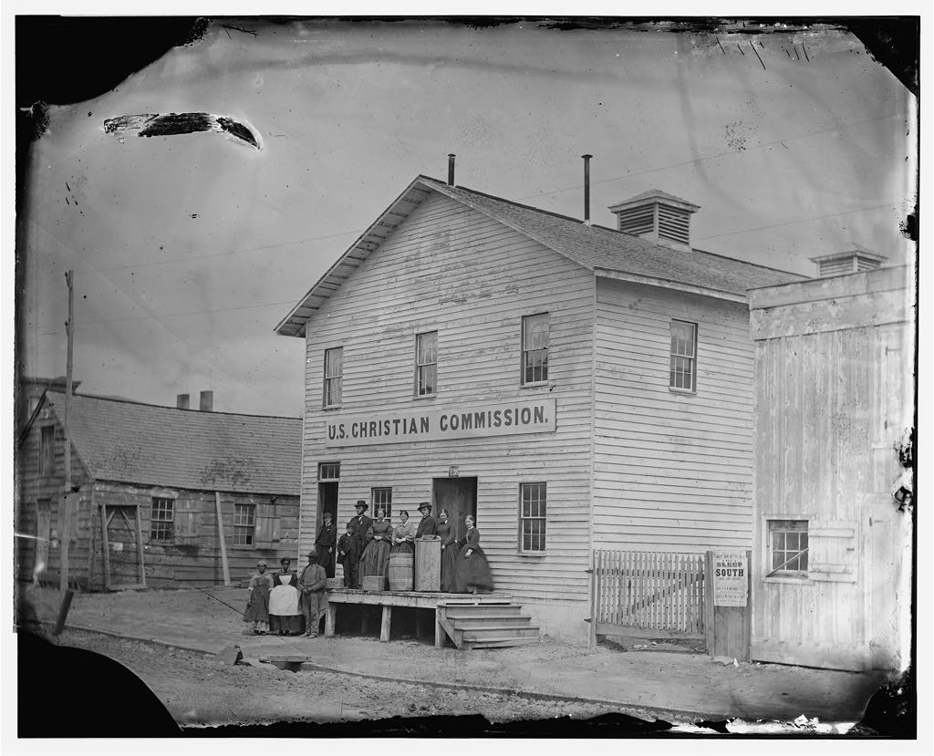 Washington, District of Columbia. Group in front of Christian Commission storehouse